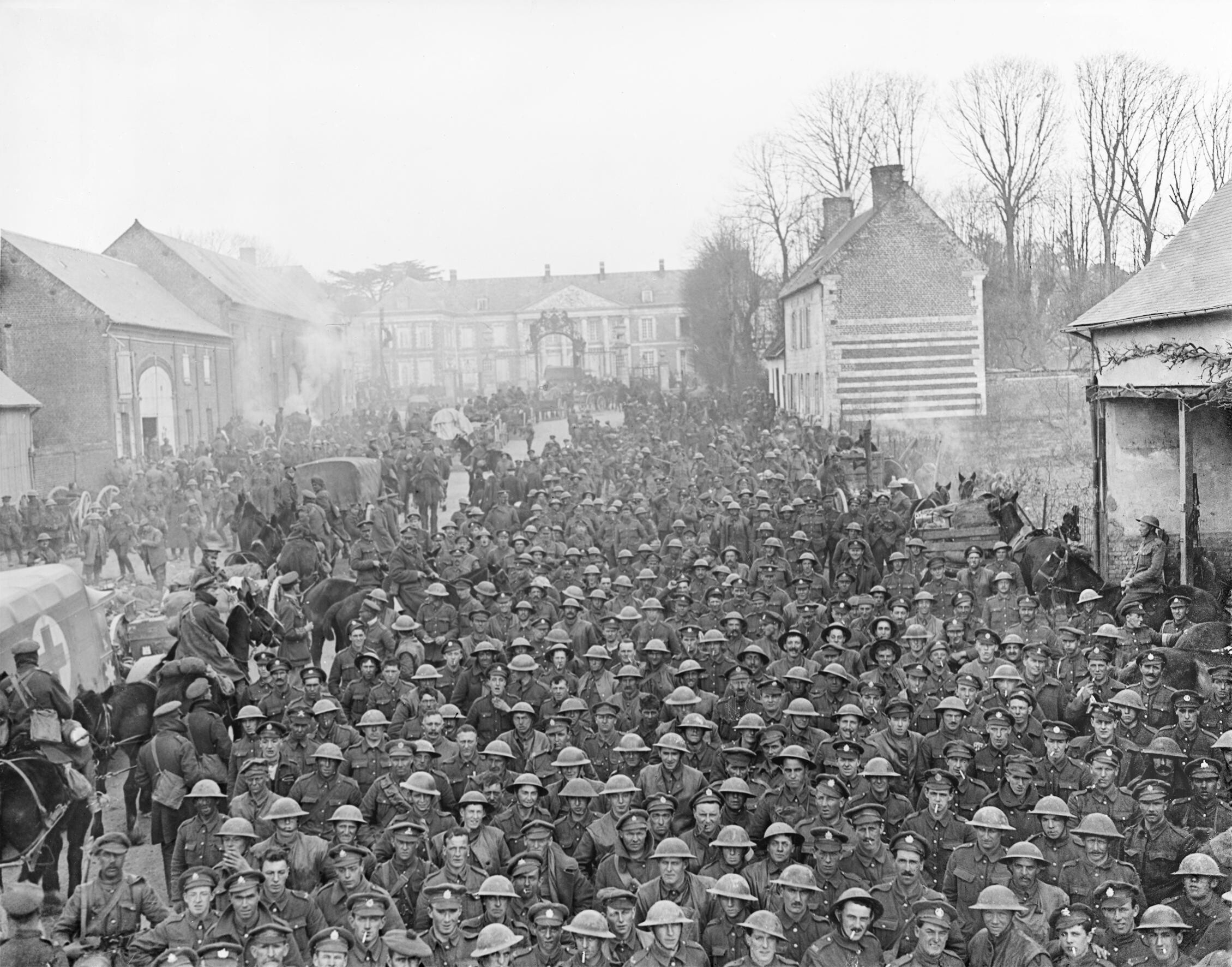 The German Spring Offensive, March-july 1918 Battle of Rosières (Operation Michael). Concentration of the 17th Division at Henencourt as the V Corps reserve after evacuation. Photograph taken at Hermies, 26 March 1918.